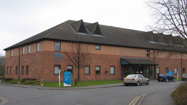 BUPA Private Hospital A large private hospital run by the British United Provident Association.